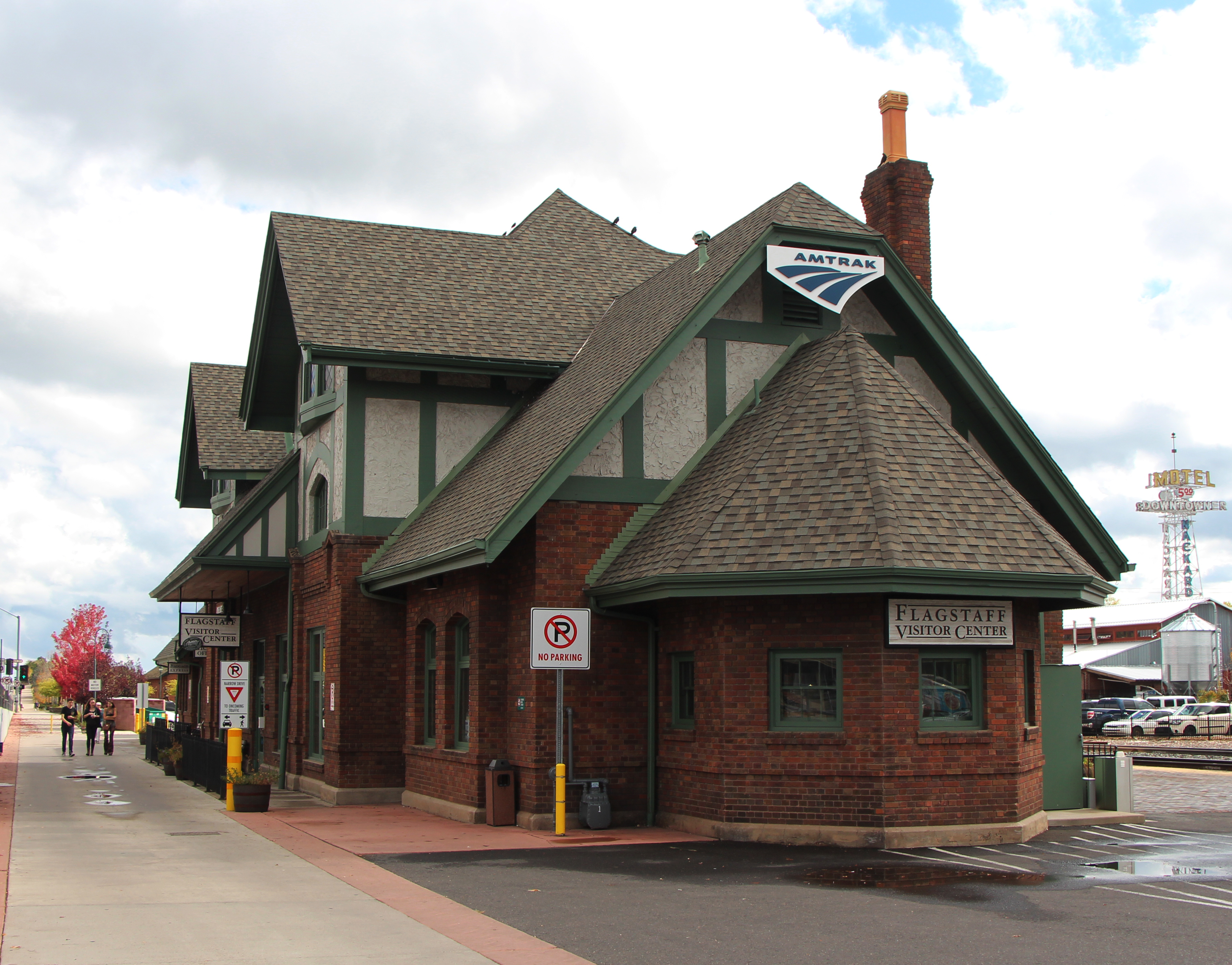 Santa Fe Depot 1926 Building, 1 East Route 66, Flagstaff, AZ